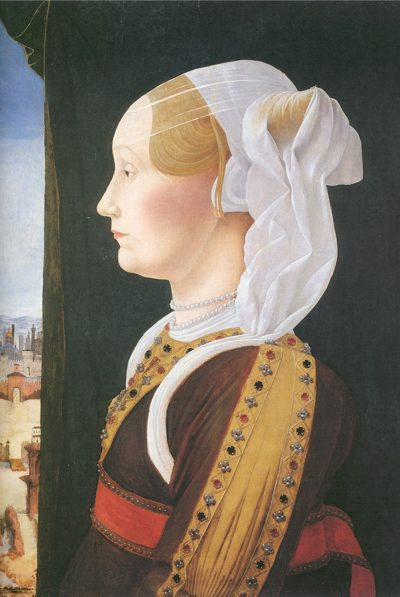 Ginevra Sforza (1440 - 16 May 1507), the wife and counselor of Giovanni II Bentivoglio, lord of Bologna.